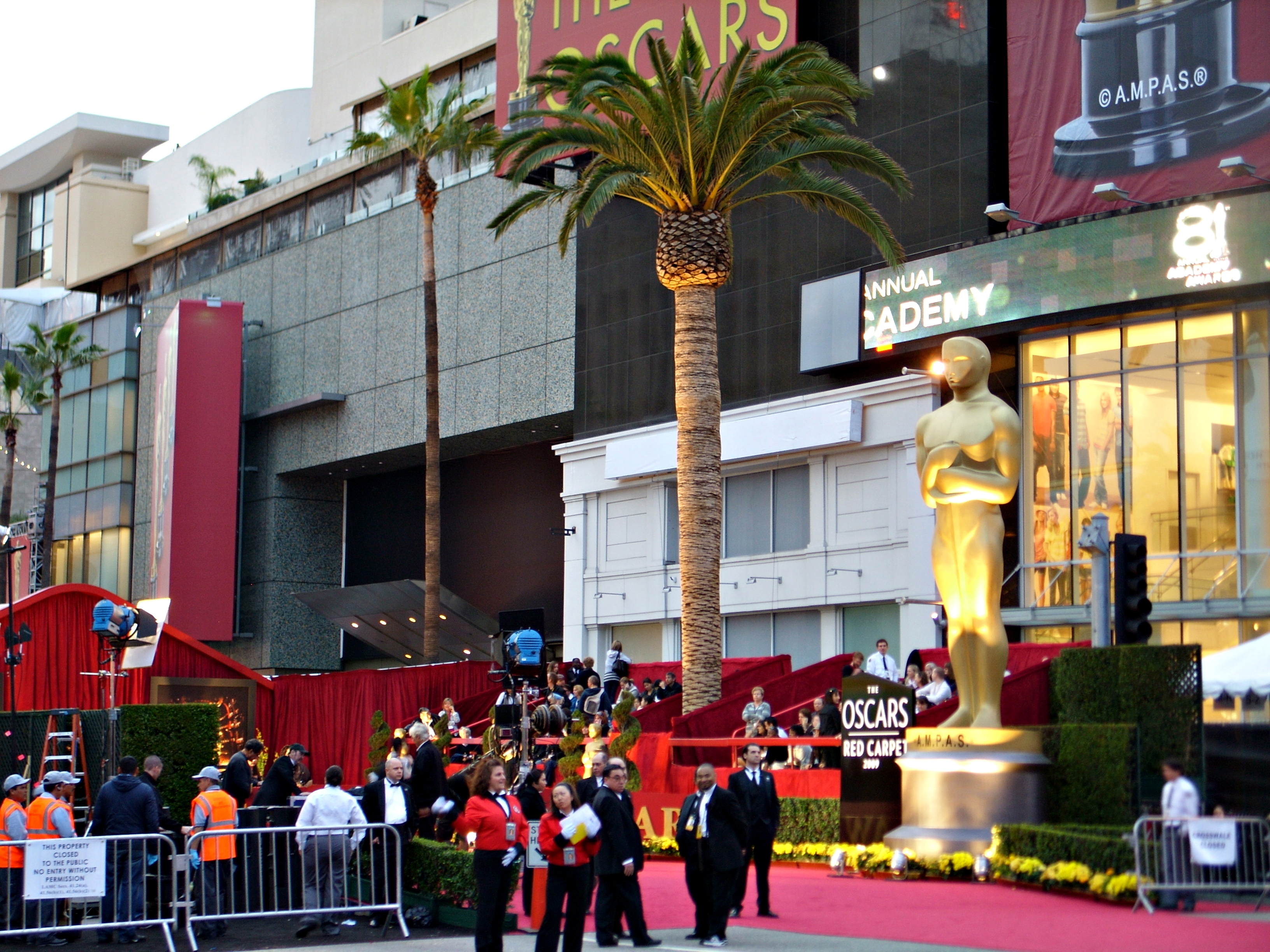 The red carpet at the intersection of Hollywood and Highland during the 81st Academy Awards Ceremony.